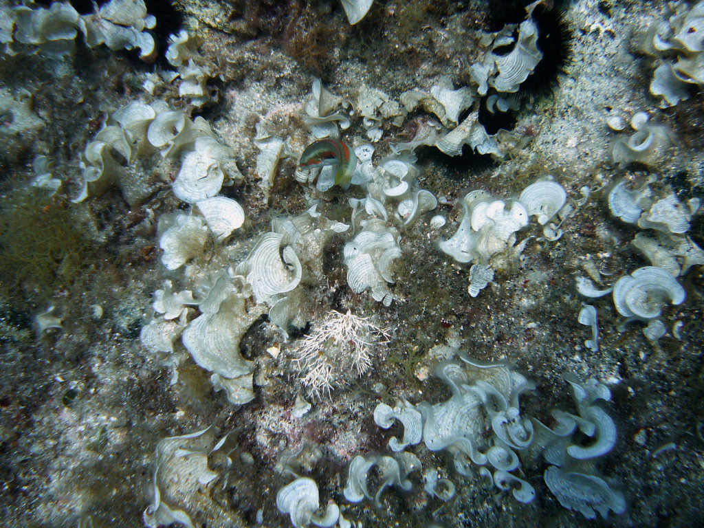 Padina pavonica (algae) and a Coris julis (fish)